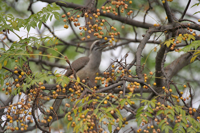 Bakain Melia azedarach in Kolkata, West Bengal, India.